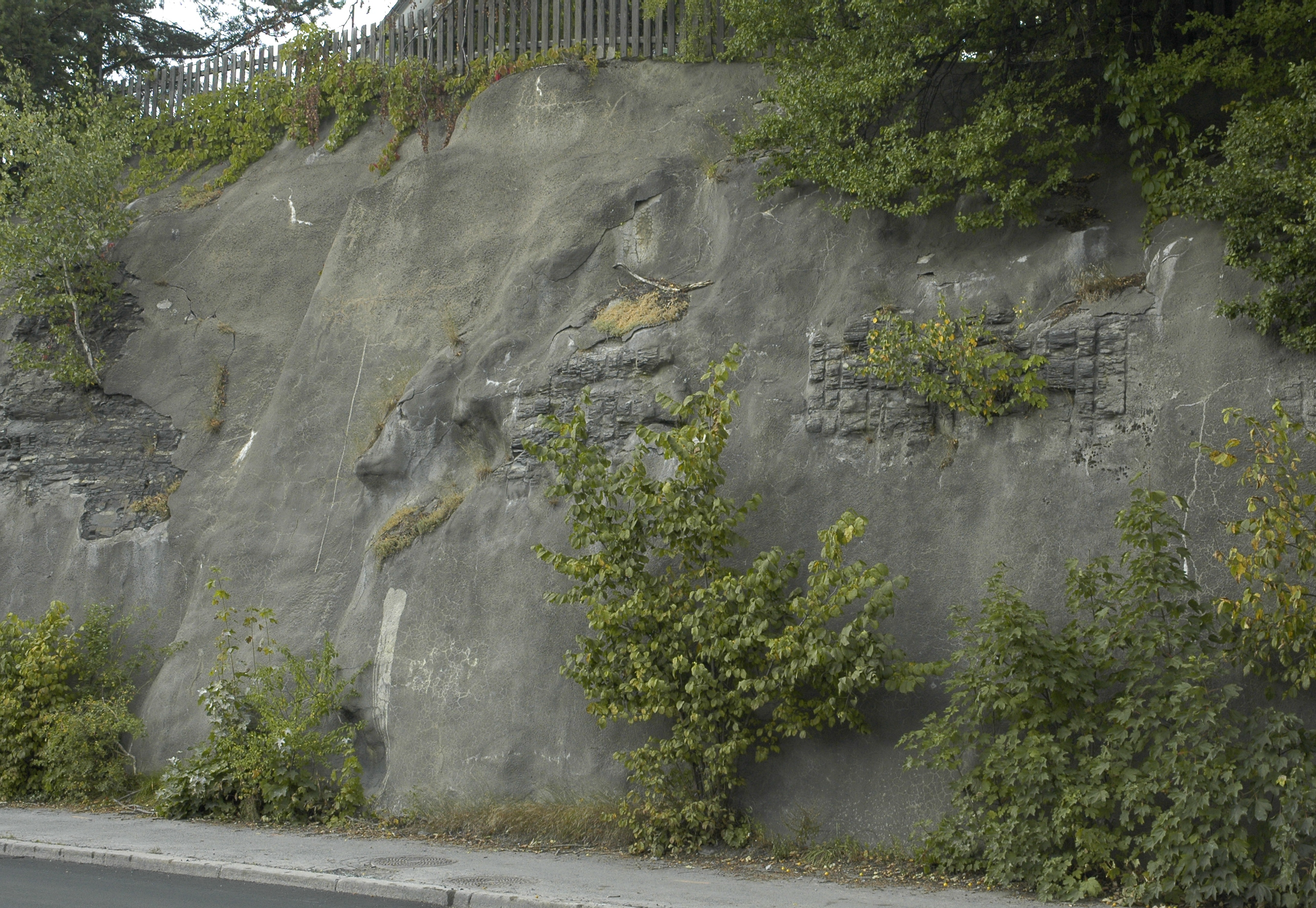 Shotcrete in road cutting. Oslo, Norway